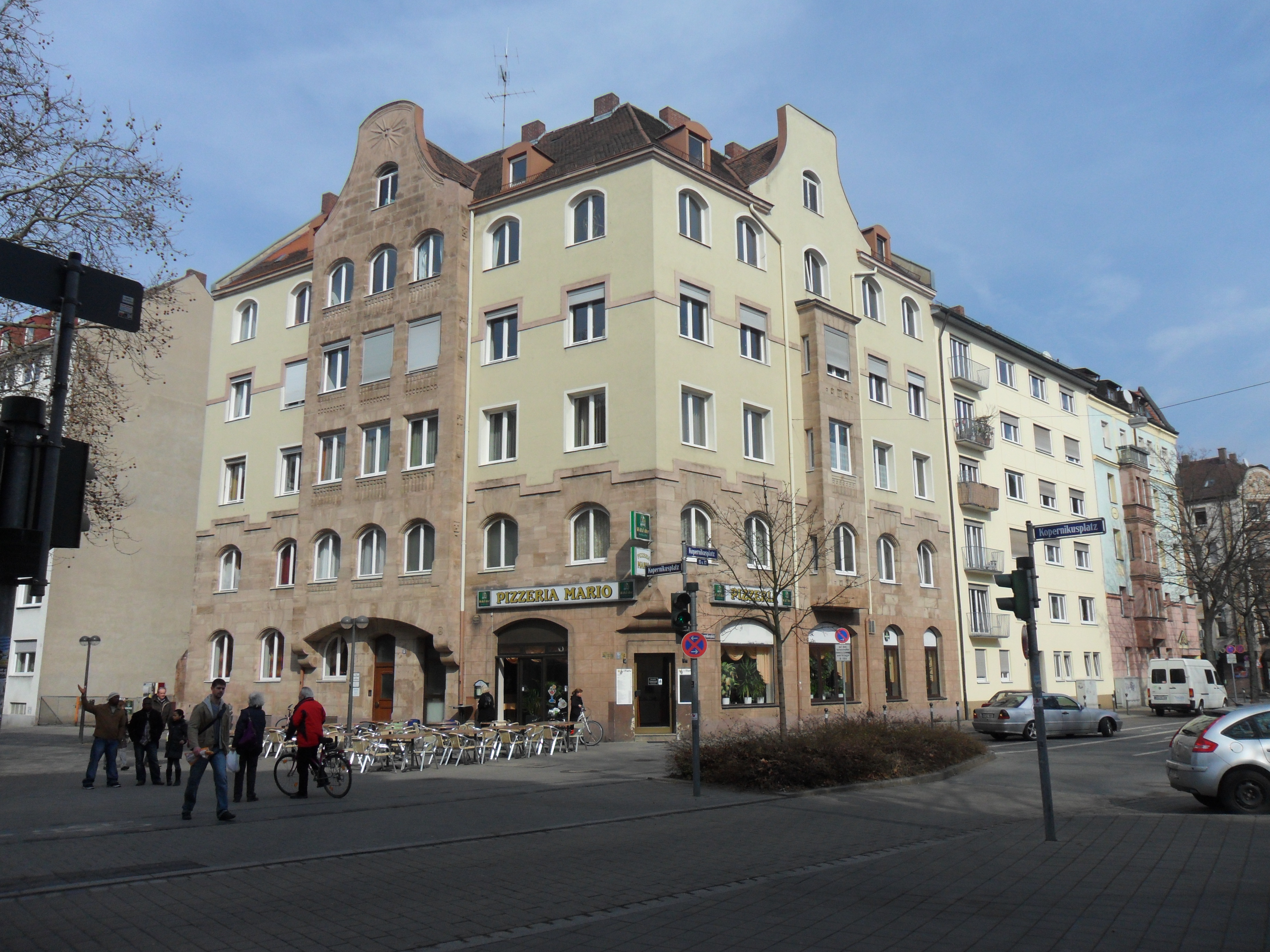 Views of the southern part of Nuremberg on both sides of the "Pillenreuther Straße"